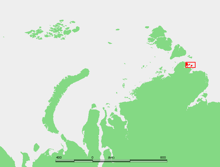 Nordensjelda Islands